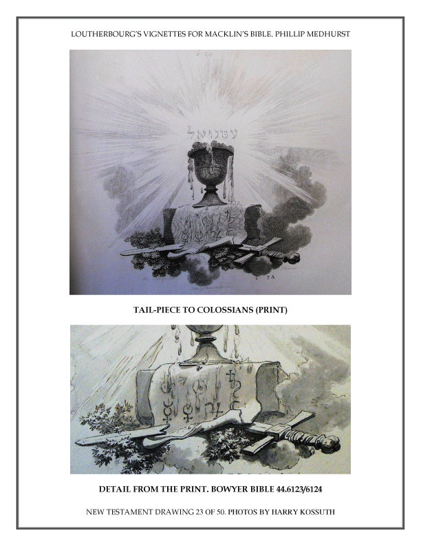 Tail-piece to Colossians. Colossians 2:14-21. Vignette with an overflowing vase standing on a sheet with zodiac signs on a base with sword resting on clouds in front, Hebrew inscription glowing above; letterpress in two columns above. 1800. Inscriptions: Lettered below image with production detail: "P J de Loutherbourg del et invt", "J. Heath direx" and publication line: "Publish'd by T. Macklin, Fleet Street, London". Print made by James Heath. Dimensions: height: 480 millimetres; width: 380 millimetres.